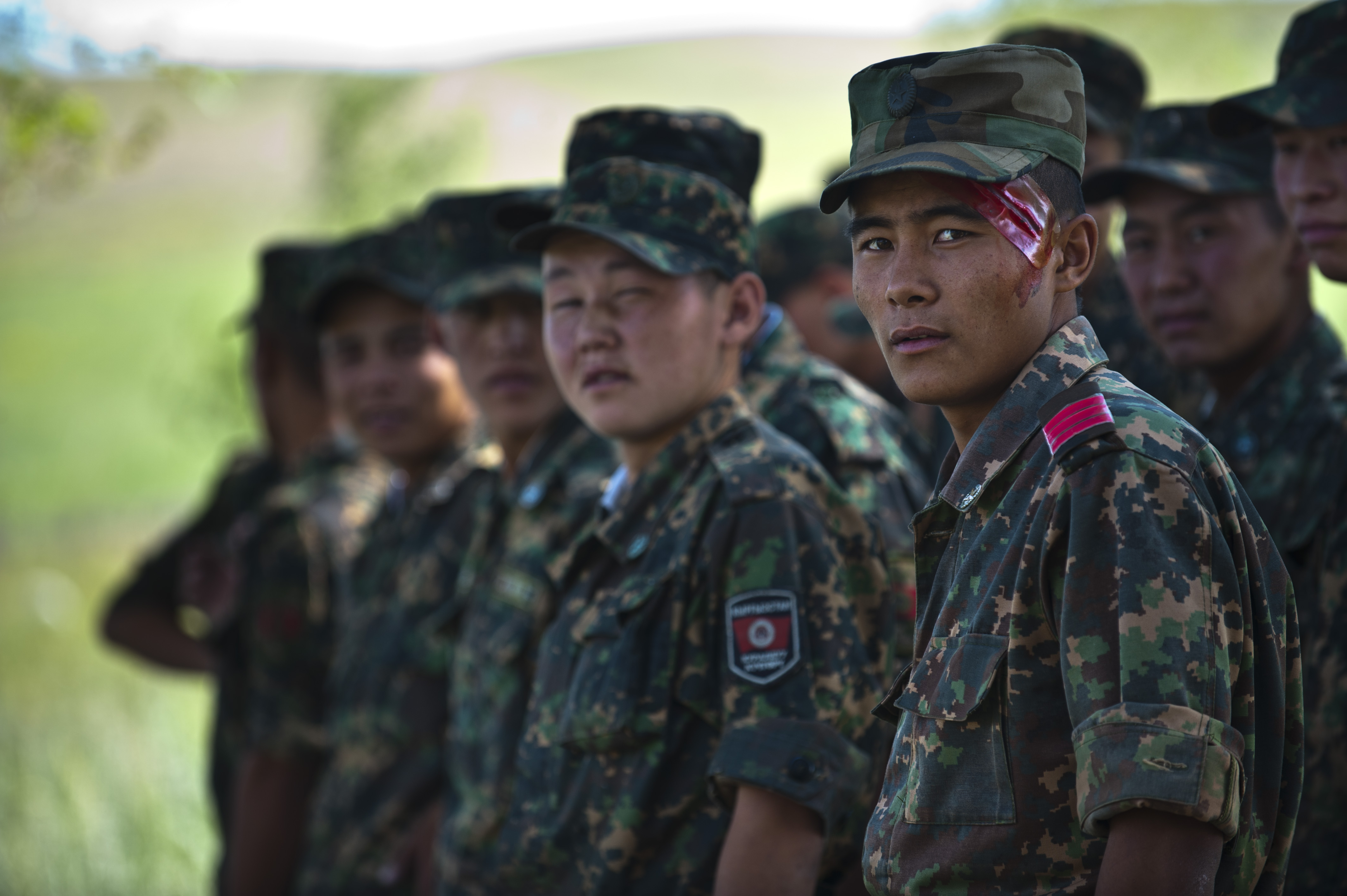 Koi Tash Military Academy, Kyrgyzstan - Exercise Regional Cooperation 2012, a multinational exercise designed to strengthen relationships and promote regional cooperation among participating nations, was held at the Koi Tash Military Academy, Kyrgyzstan, June 18 to 28. The exercise tested participants' emergency management capabilities while working to strengthen interoperability between all involved.